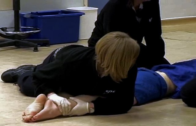 GB women's prison, barefoot inmate